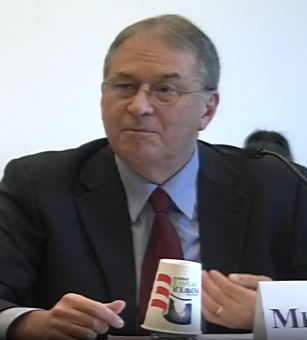 David Albright at a Subcommittee on Terrorism, Nonproliferation, and Trade on the Iranian Nuclear Talks